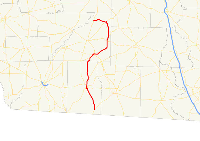 Map of Georgia State Route 93